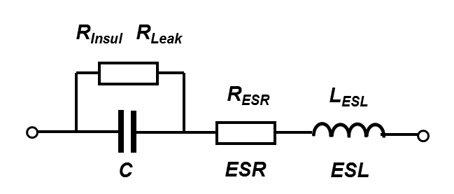 Series-equivalent circuit model of a capacitor